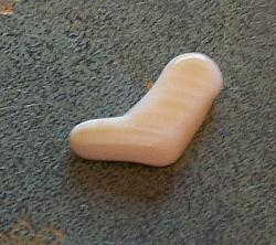 A piece of nacre or mother-of-pearl.